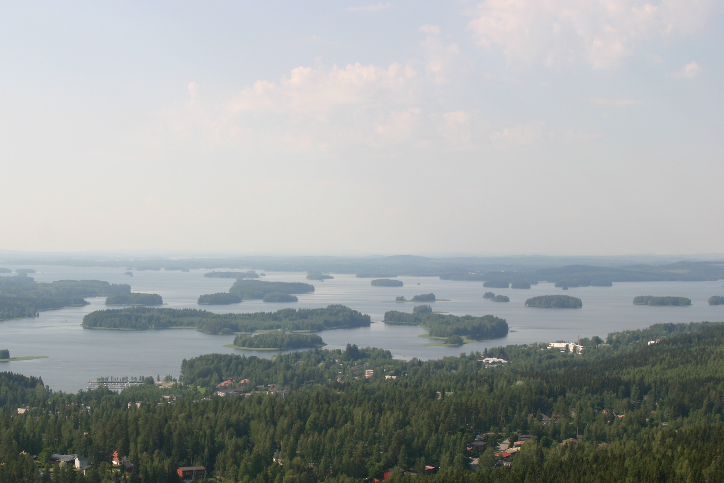 View of islands on Lake Kallavesi from Puijo, Kuopio, Finland